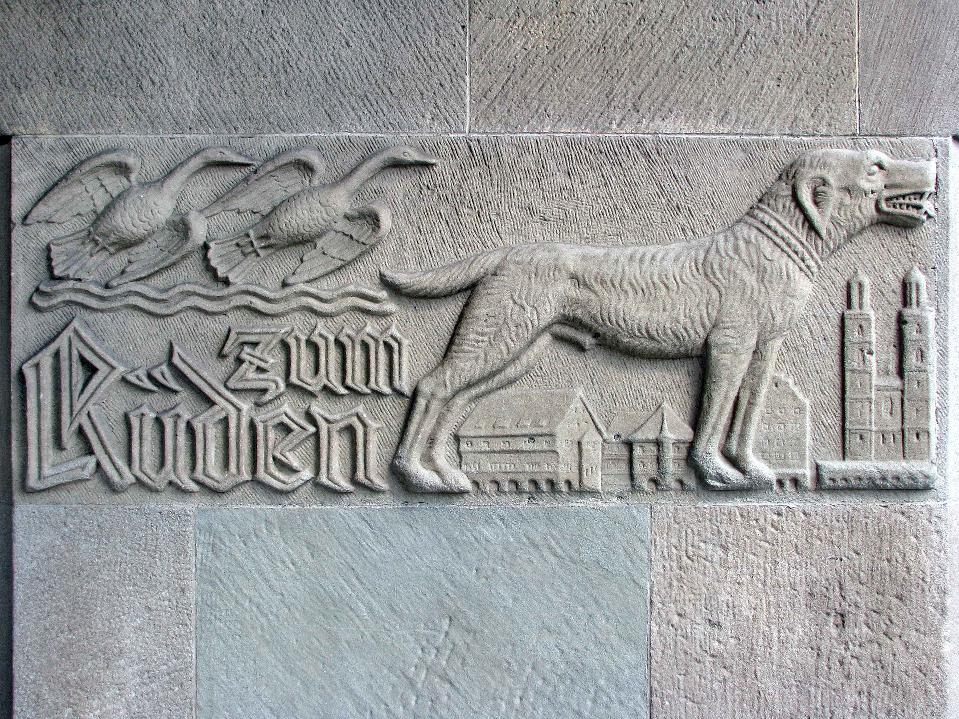 Zürich, Limmatquai : Gesellschaft zur Constaffel - Guild house «zum Rüden».